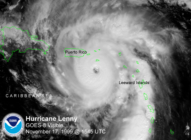 Hurricane Lenny on November 17, 1999 at 1545 UTC, as imaged by NOAA's GOES-8 weather satellite. Maximum sustained winds were greater than 115 knots and the minimum central pressure was lower than 946 mb.